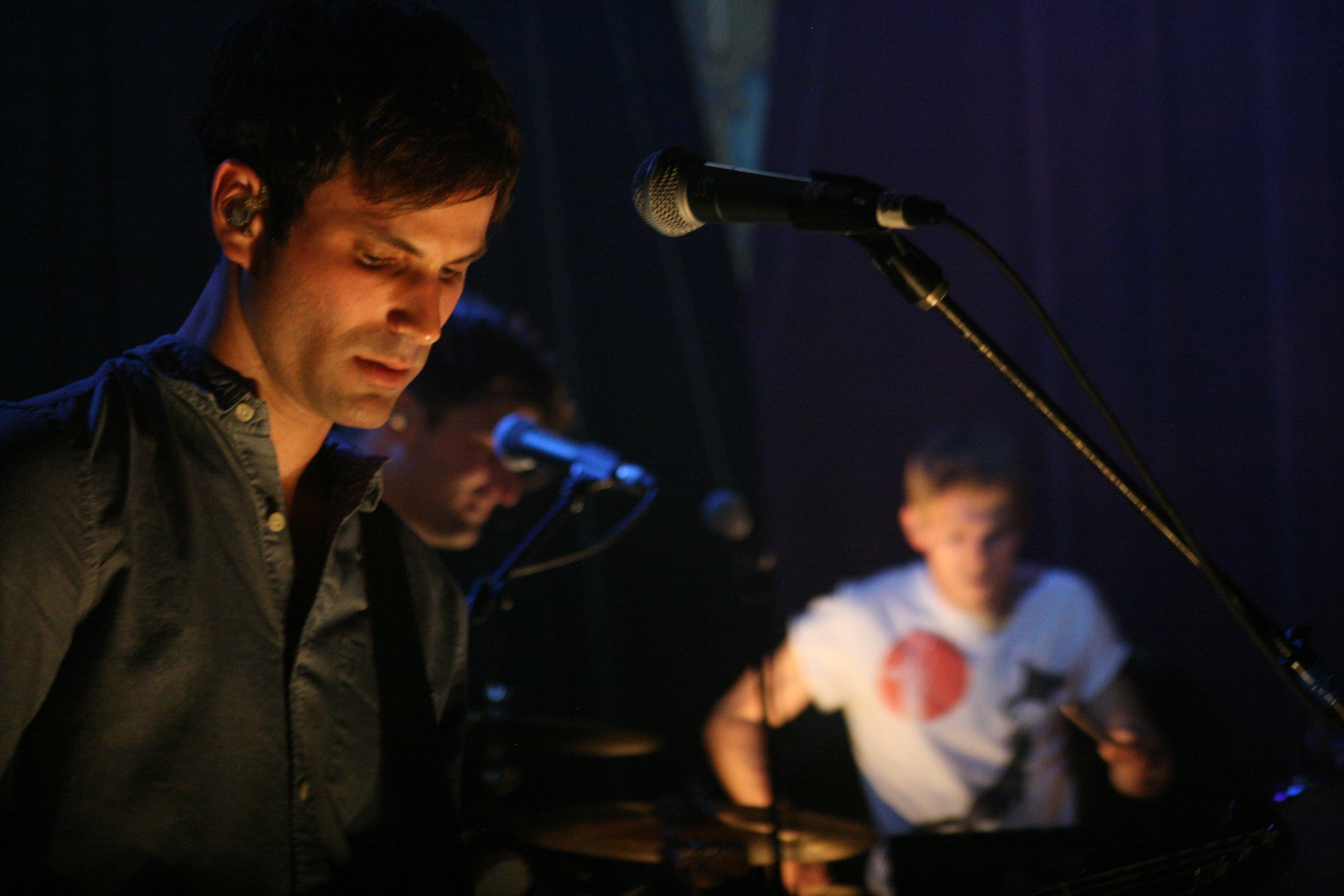 Sean Cimino with Mark Pontius in the background at the Bluebird Theater in June 2011